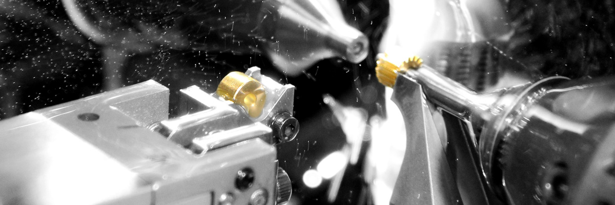 brass spur gear on AFFOLTER CNC Gear Hobbing Machine